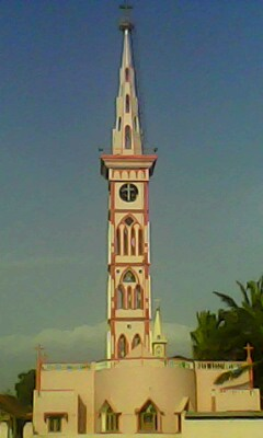 Saint Paul 's Church Mela Ilandaikulam in Tirunelveli District, Tamil Nadu, is located in Mela Ilandaikulam. Is church tower Length 50.4 metres (165 feet) Width 10.3 metres (34 feet) and launched on December 28, 1903